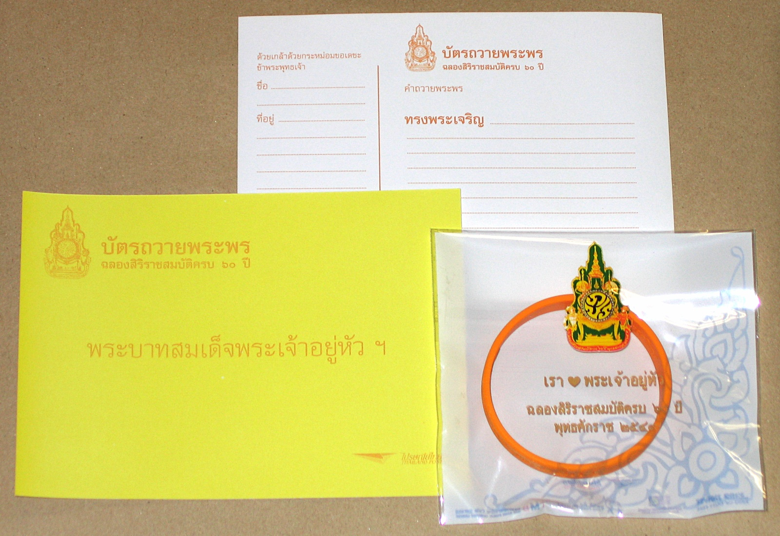 Wrist band (in the wrapping) and card (showing both sides) for the 60th anniversary celebrations of King Bhumibol Adulyadej's accession to the throne.